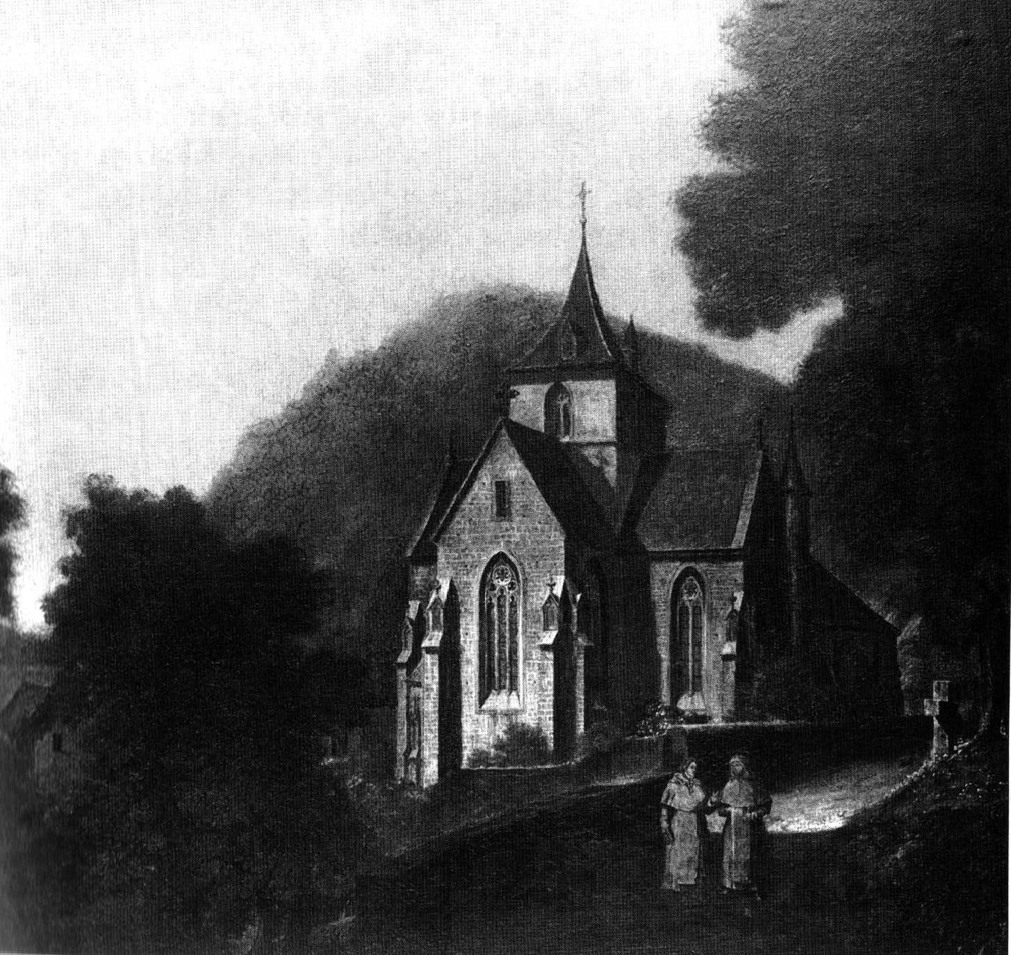 All Saints' Abbey. Schwarzweiß-Reproduktion eines historisierenden Ölgemaldes von Baron Röder von Diersburg.